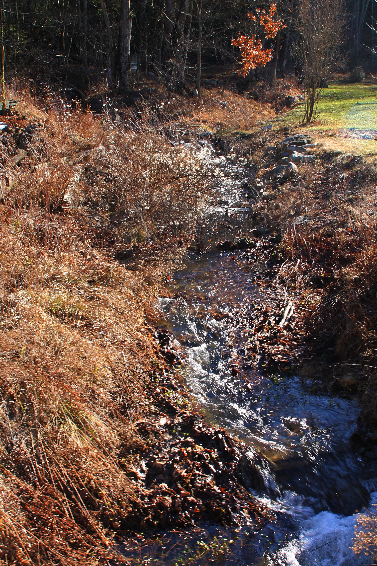 Fallow Hollow looking upstream near its mouth